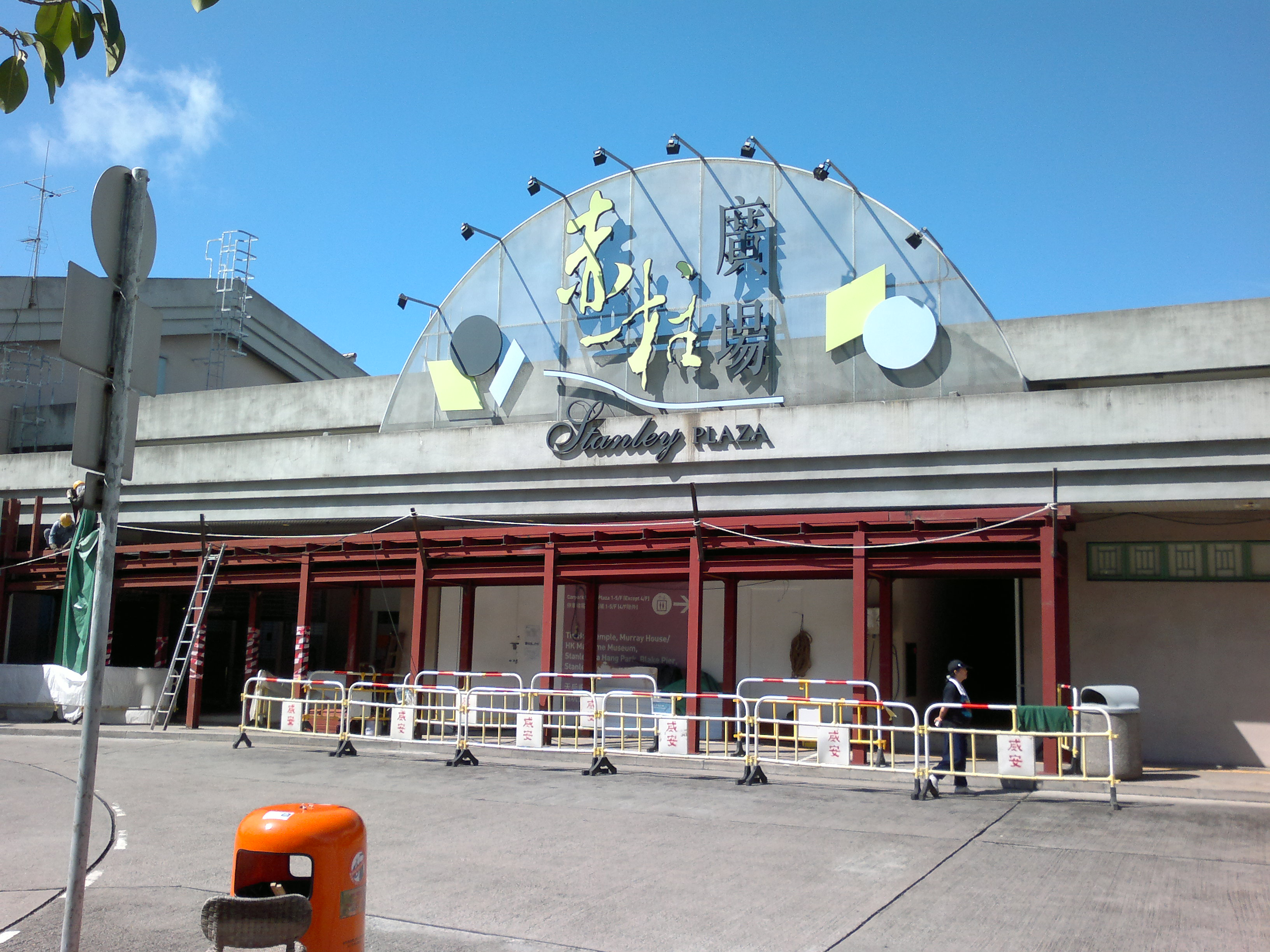 Stanley Plaza 5th Floor Entrance